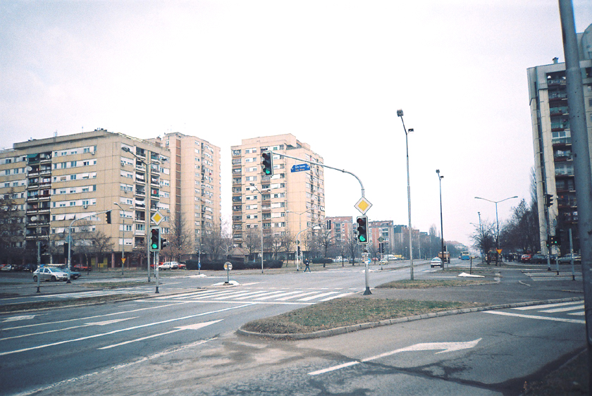 Image of Novo Naselje neighborhood in Novi Sad. Serbian: Слика Новог Насеља (Бистрице) у Новом Саду. Category:Novi Sad images Ð¡Ð»Ð¸ÐºÐ°:Ð Ð¾Ð²Ð¾ Ð Ð°Ñ ÐµÑ™Ðµ.jpg